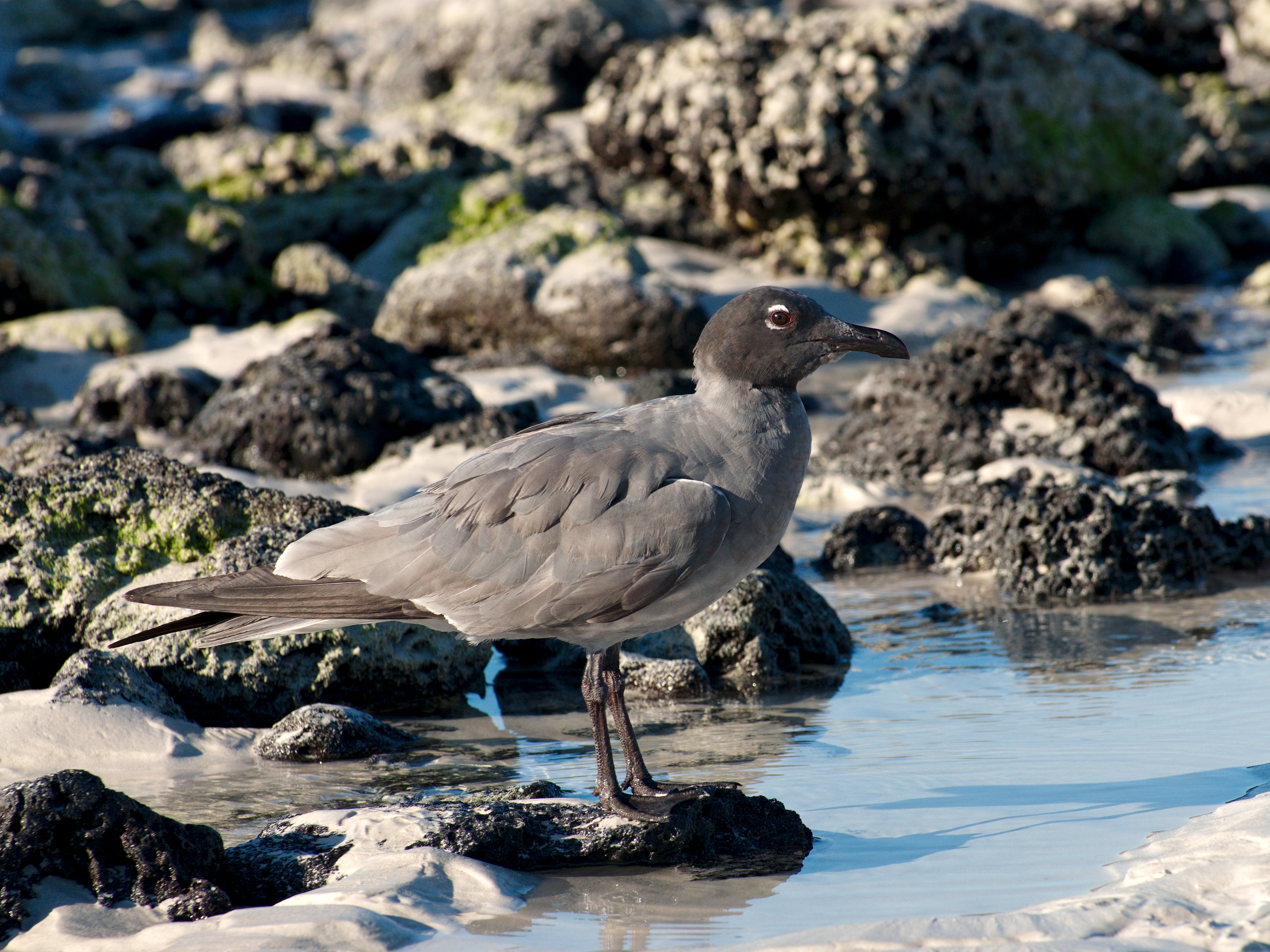 Lava Gull (Leucophaeus fuliginosus) between rocks, Santa Cruz island, Galapagos Islands.